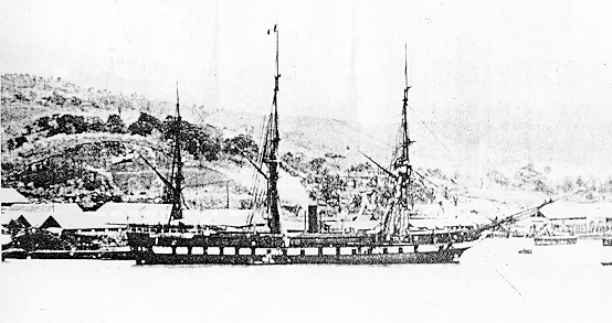 The Novara at Martinique in 1864, with Ferdinand Maximillian and his entourage aboard, en route Santa Cruz, Mexico, where he and his wife were to take on the title of Emperor and Empress of Mexico.